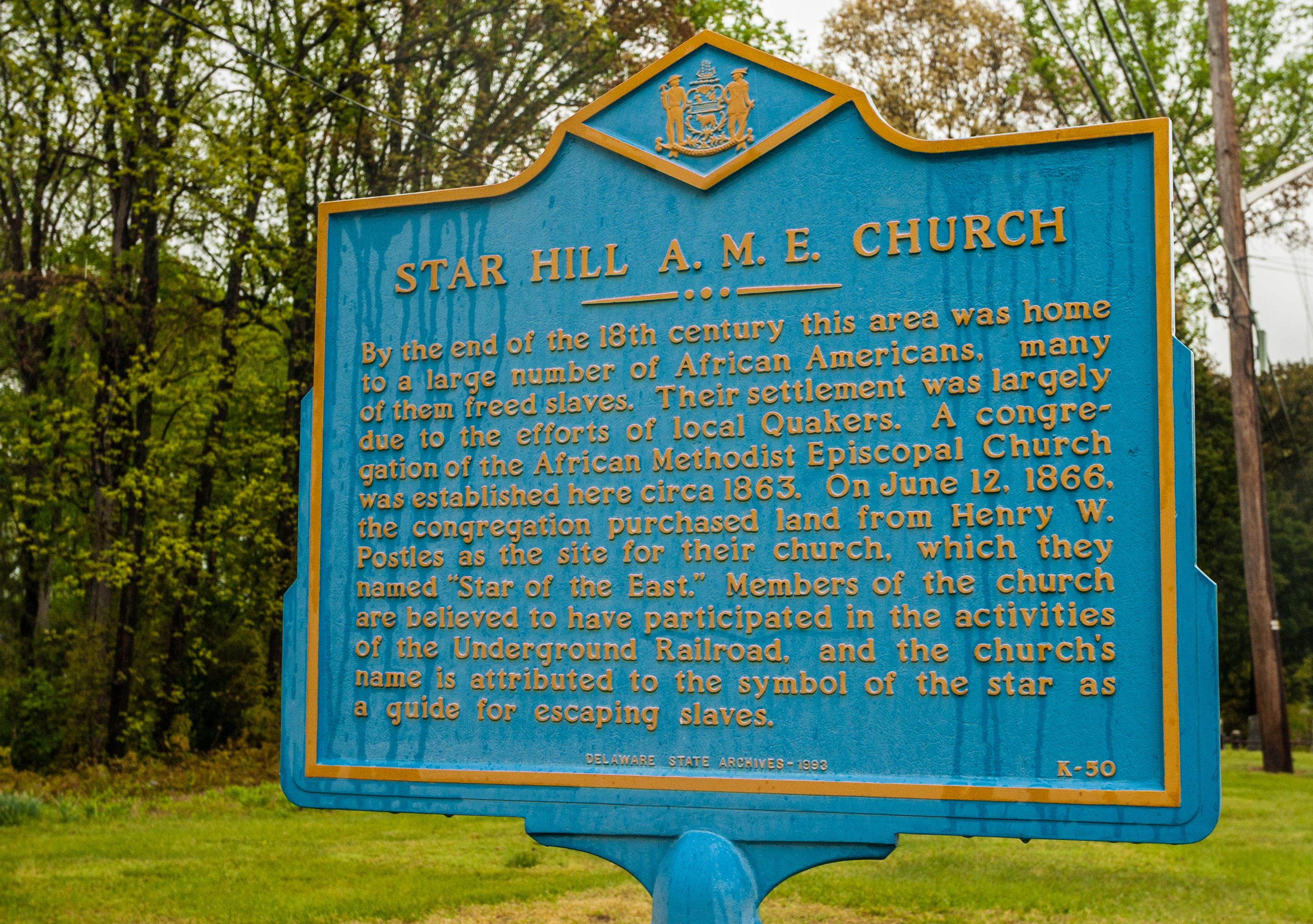 Starr Hill AME Historical Marker_0327